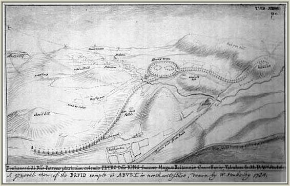 William Stukeley's vision of the complete Beckhampton Avenue